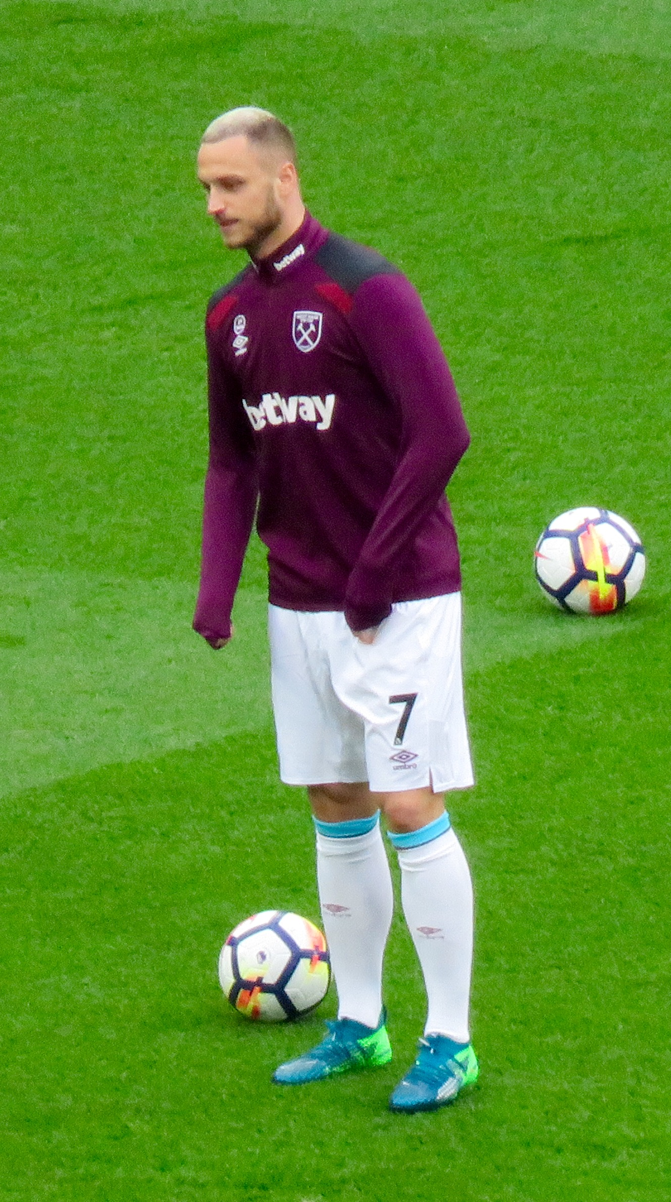 West Ham player, Marko Arnautović before their Premier League game against Manchester City at the London Stadium